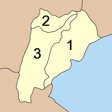 Map of Samut Prakan province, Thailand, with the districts numbered Mueang Samut Songkhram Bang Khonthi Amphawa